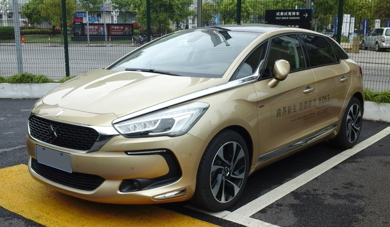 DS 5 facelift photographed in Shanghai, China.